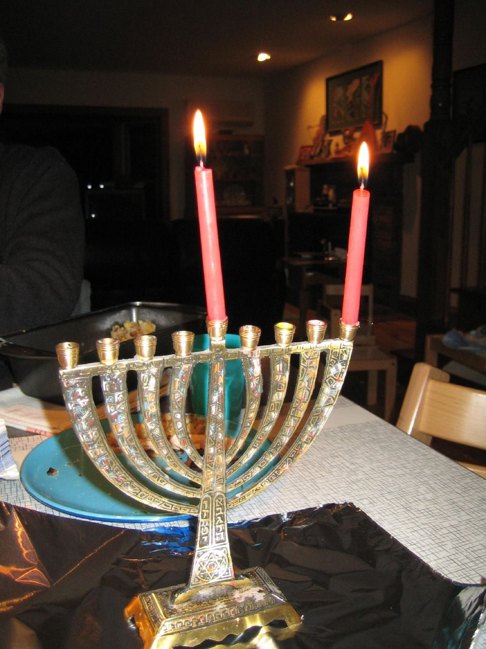 "Aunt Ethel's Menorah" - Menorah with two burning candles during Hanukah